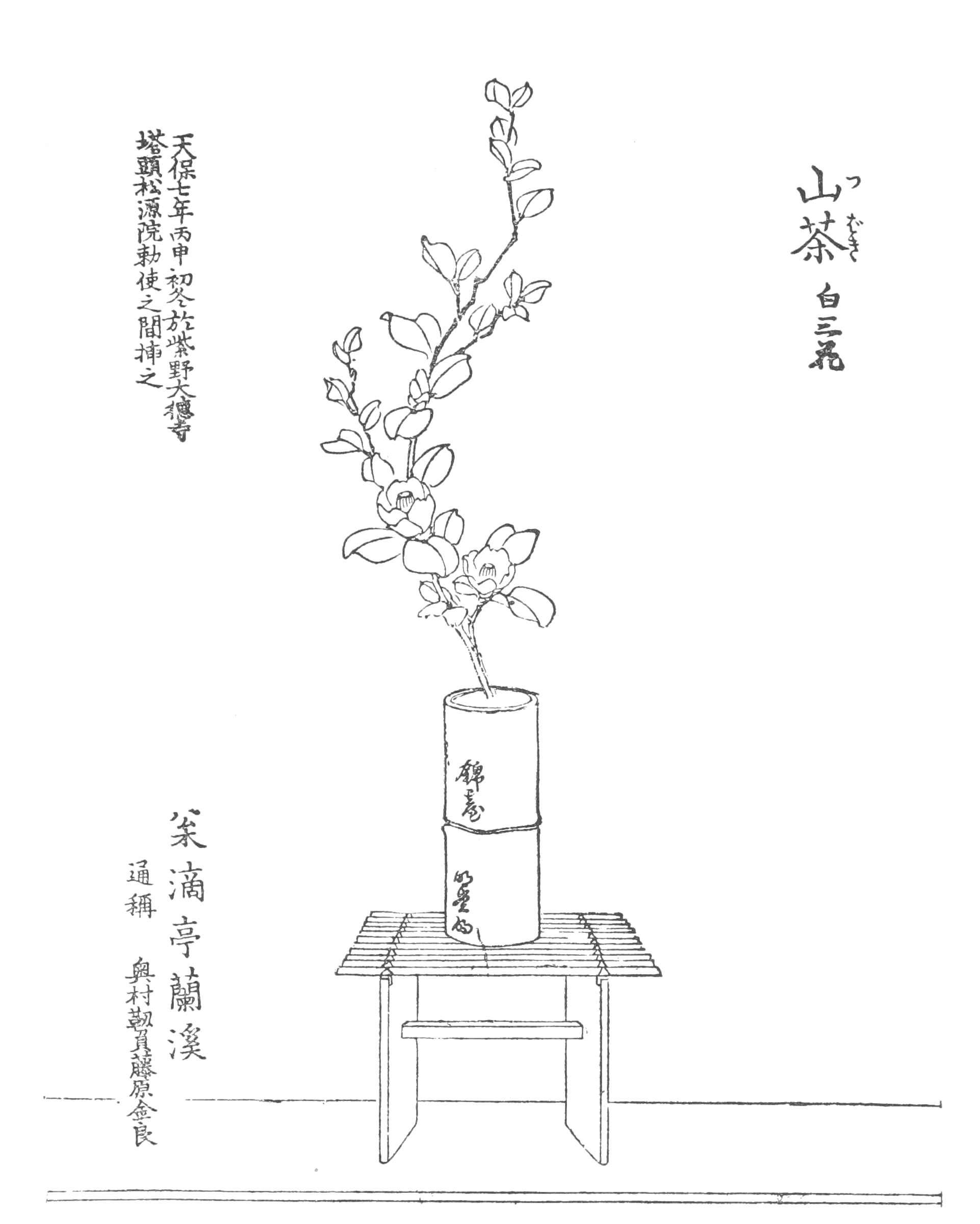 Three Sprays of Magnolia.